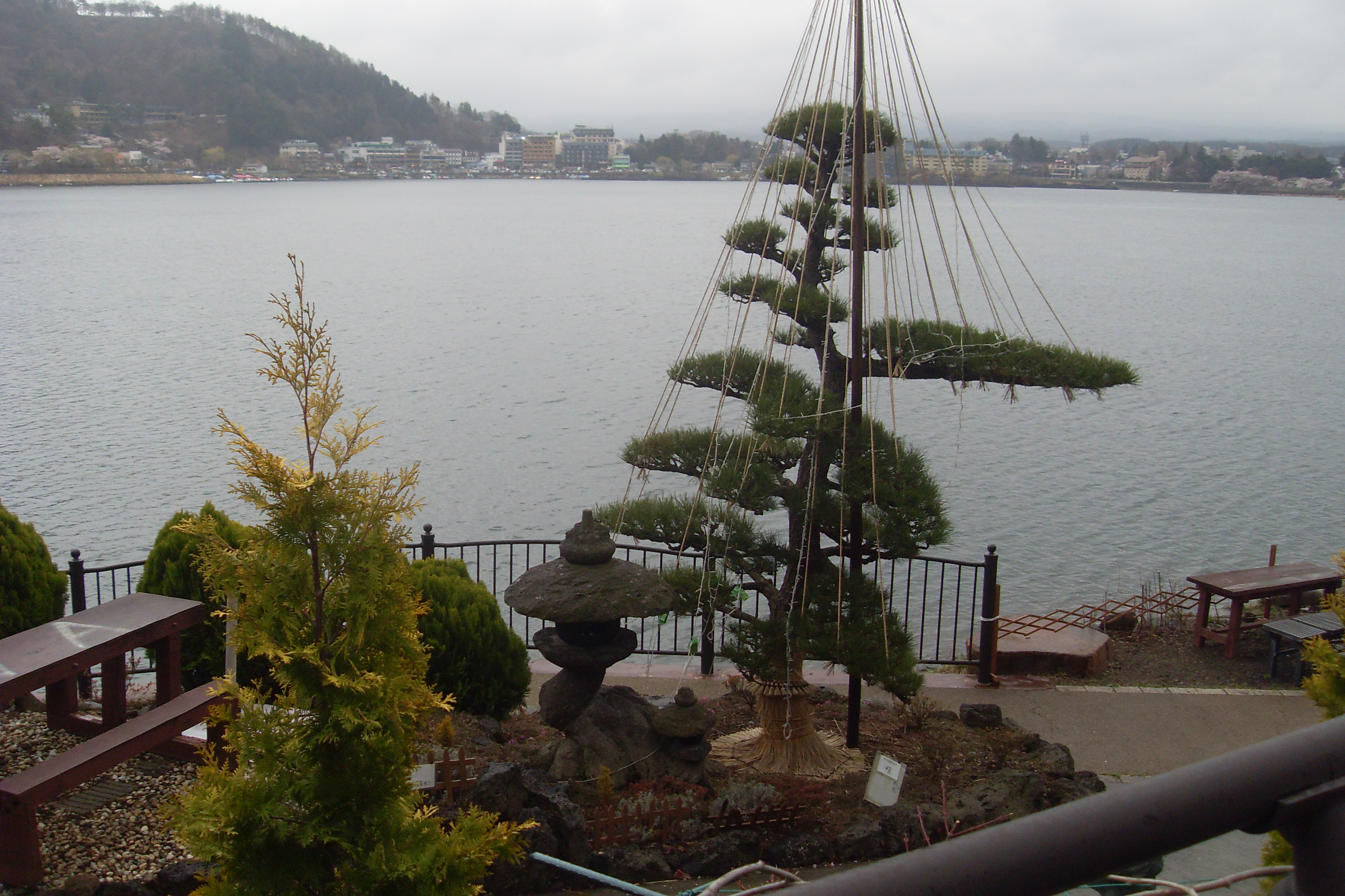 Yukizuri at lake Kawaguchi, Japan